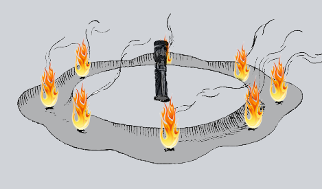 The shrine of Perun in Novgorod, a self-made reconstruction